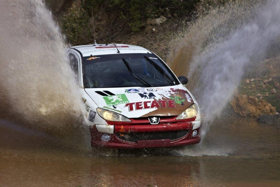 Jose Manuel Ponce racing WRC Mexico 2010 in Class A6 in an FIA homologated Peugeot 206.